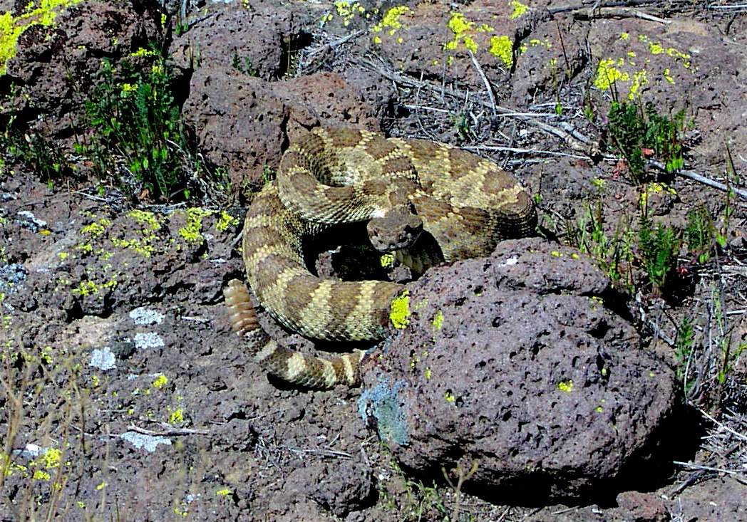 Crotalus viridis — Western Rattlesnake, Encountered on a Basaltic ridgetop in the Caliente Range, west of the Carrizo Plain in Central California. "Stood its ground nicely, behaved like the diamondback. Only trolls like me less." GFDL, photo by User:Antandrus, 3/22/08